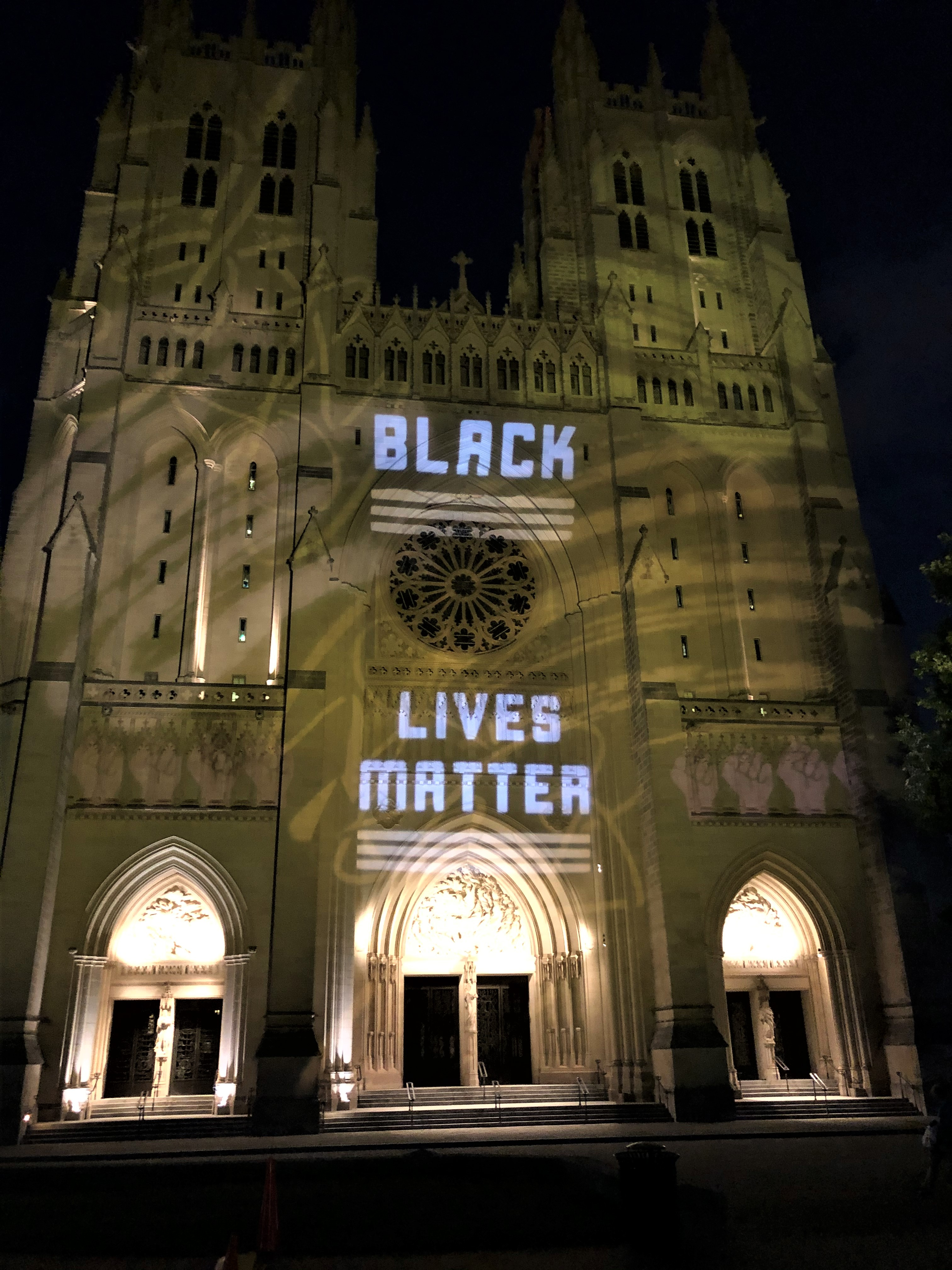 "Black Lives Matter" projected onto the facade of the Washington National Cathedral, 10 June 2020, after the murder of George Floyd in Minneapolis